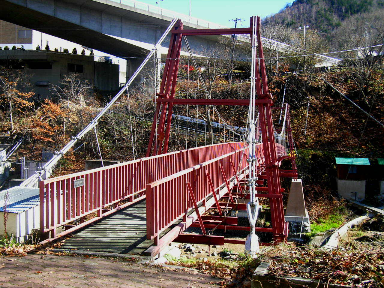 Takayama Bridge of the Toyohira River, Sapporo, Japan.